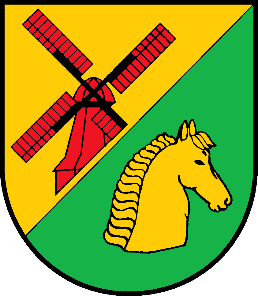 Coat of arms of the municipality Hamwarde in Schleswig-Holstein, Germany.